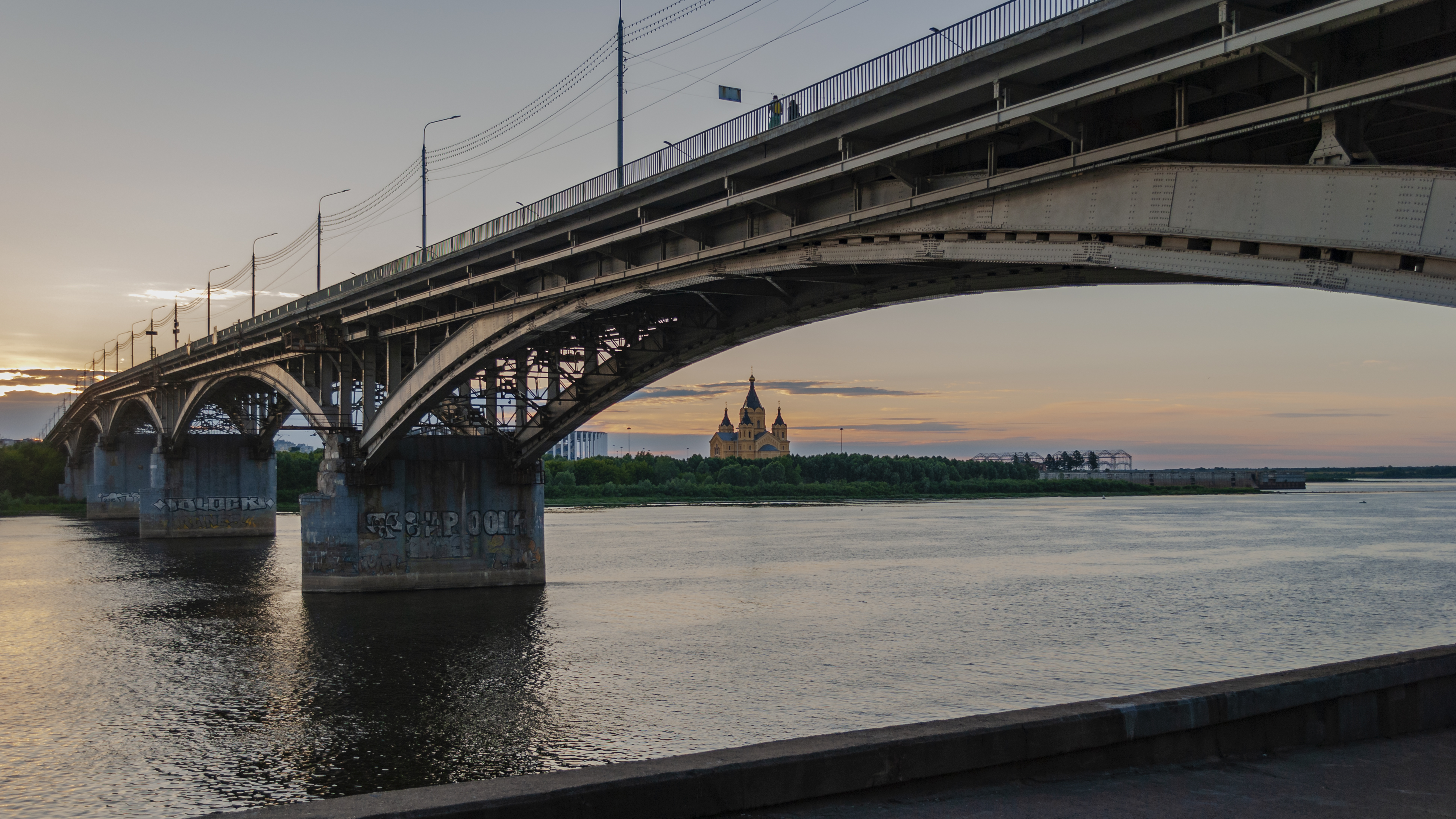 Kanavinsky Bridge, Nevsky Cathedral and the Nizhny Novgorod Stadium